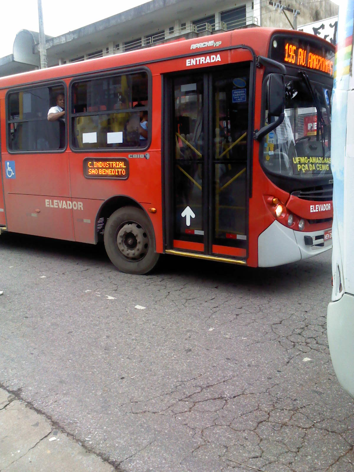 Metropolitan bus in Santa Luzia, Minas Gerais.